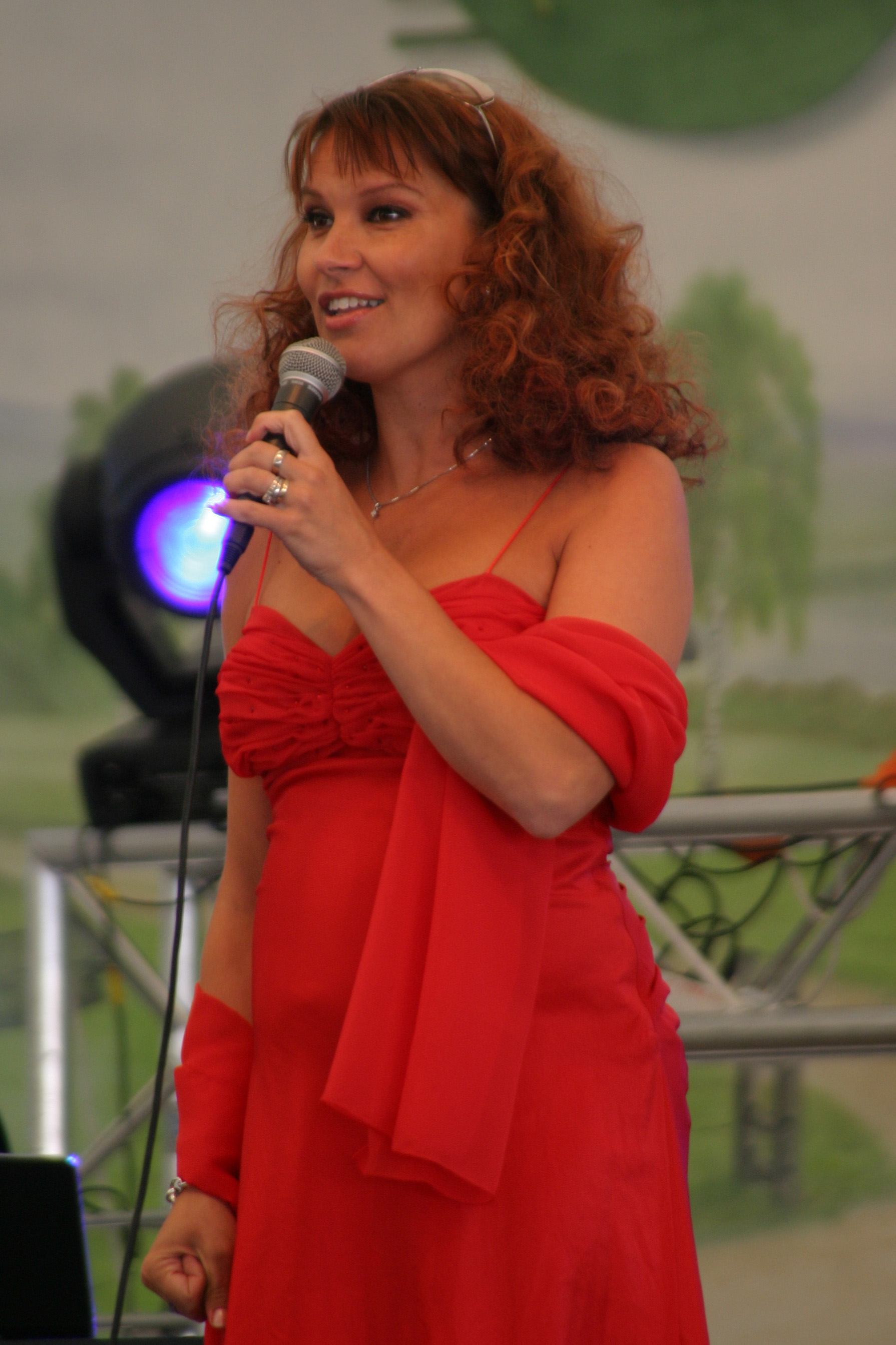 Arja Koriseva in Vihreät Niityt music festival in the summer 2006.